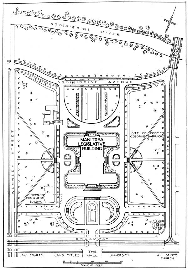 Map of the grounds at the present-day Legislative Building, showing the location of the “former Parliament Building,” which stood at the site from 1884 to 1920